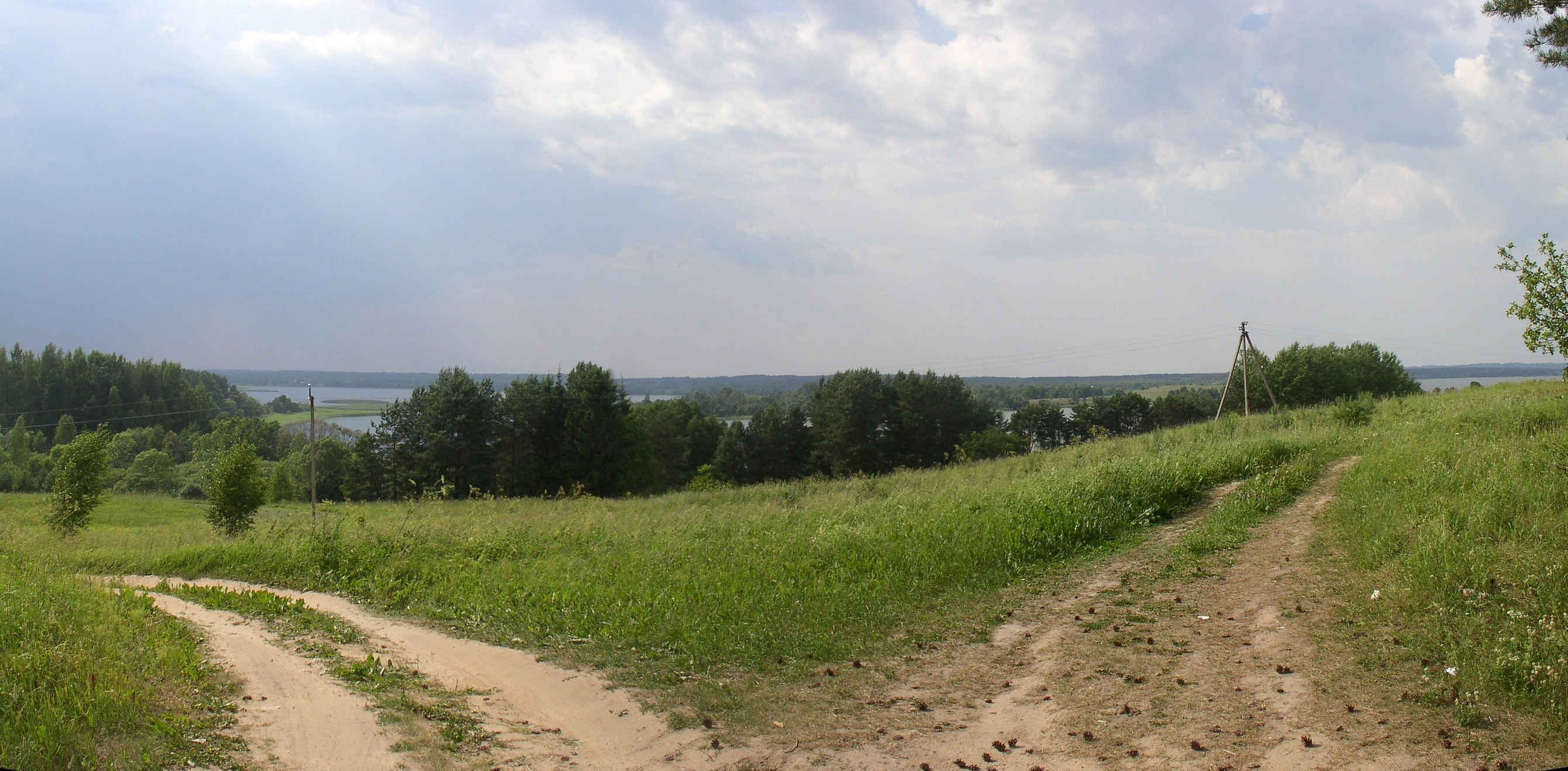 View on Beloye Lake. Sebezh National Park, Russia.